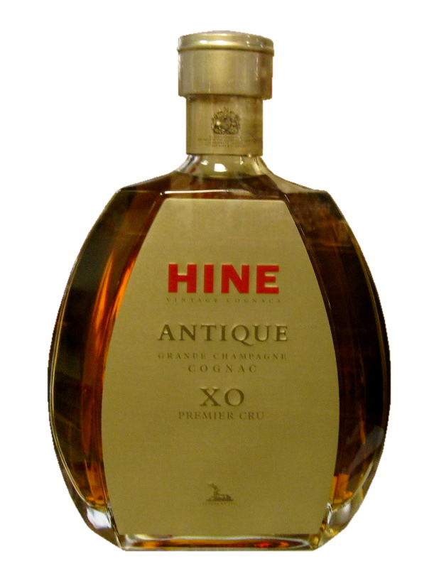 Cognac by Thomas Hine & Co.